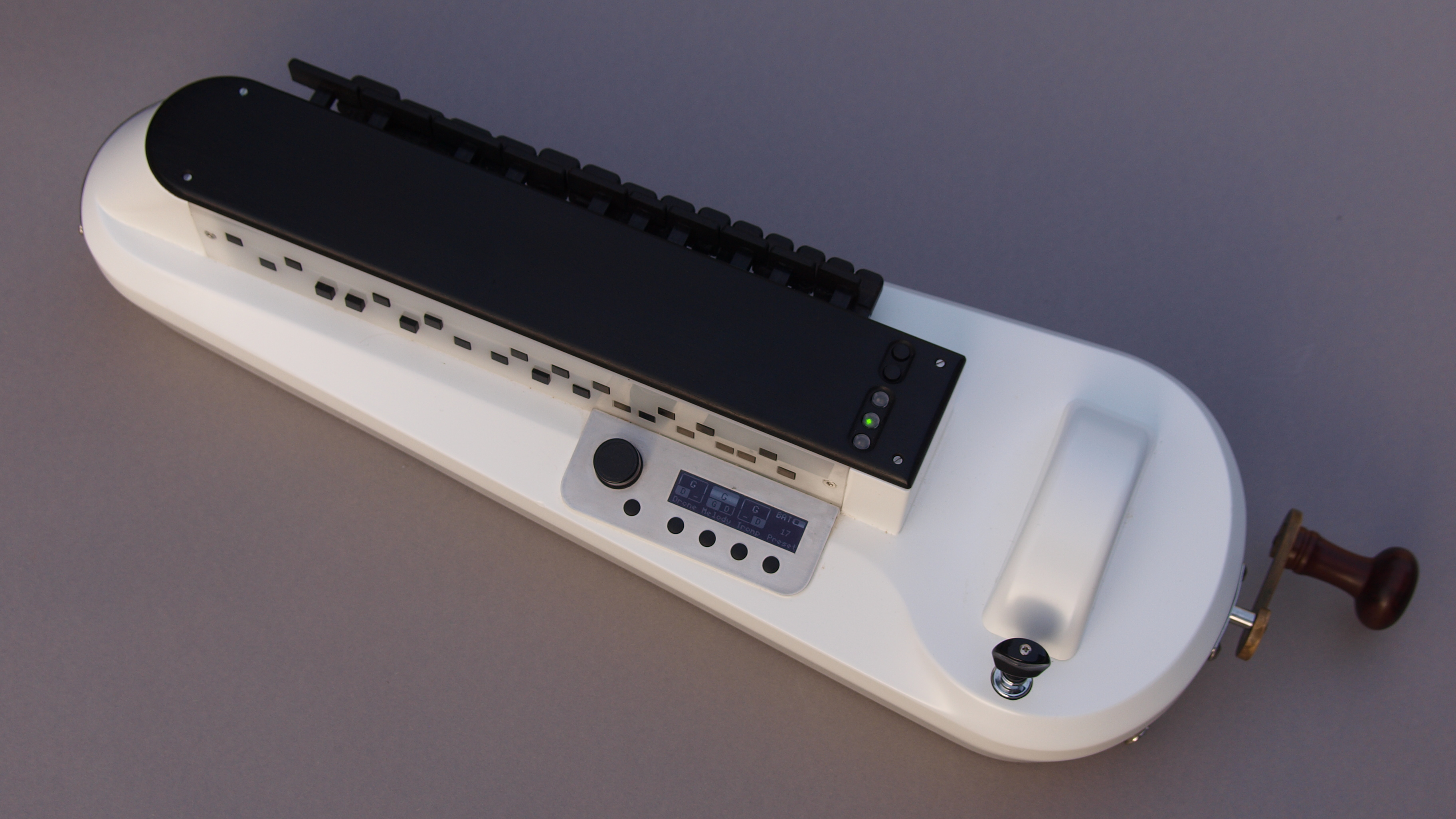 MidiGurdy - Electronic, stringless Hurdy Gurdy with integrated sensors, processor, soundboard and user interface with OLED display. Keyboard with 24 keys. Rechargeable battery powered. Manufacturer: Marcus Weseloh, Hamburg, Germany.